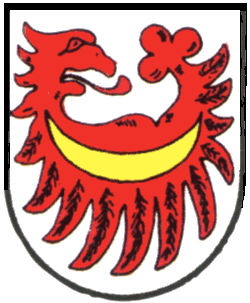 Coat of arms of Heinsheim